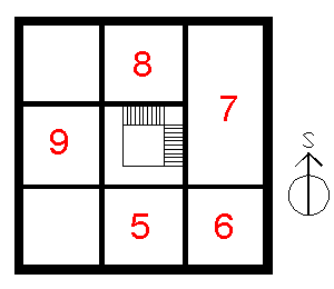 Plan of gfirst floor of Verres castle in Aosta Valley